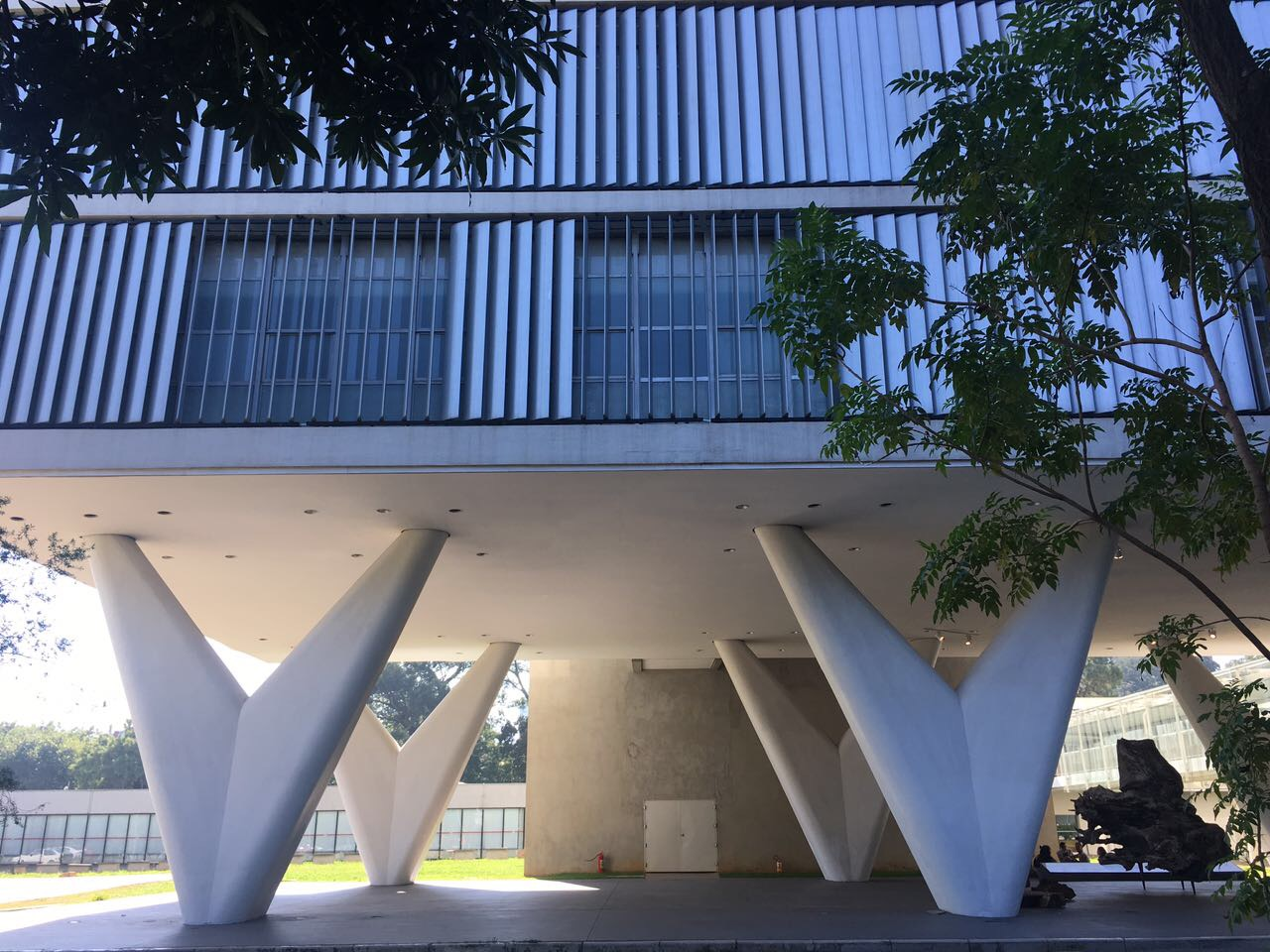 museu de arte contemporânea